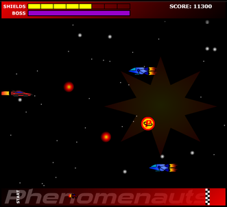 Screenshot of Example Play (Story Mode) of Phenomenauts Video Game